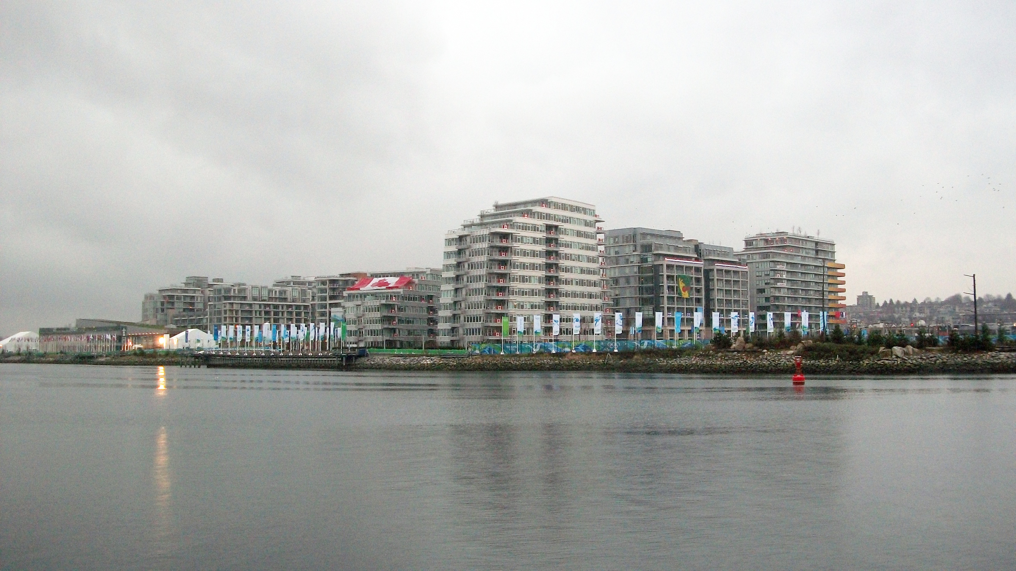 The athletes' village in Vancouver, British Columbia for the 2010 Winter Olympic and Paralympic Games, shot from across False Creek on February 10, 2010.